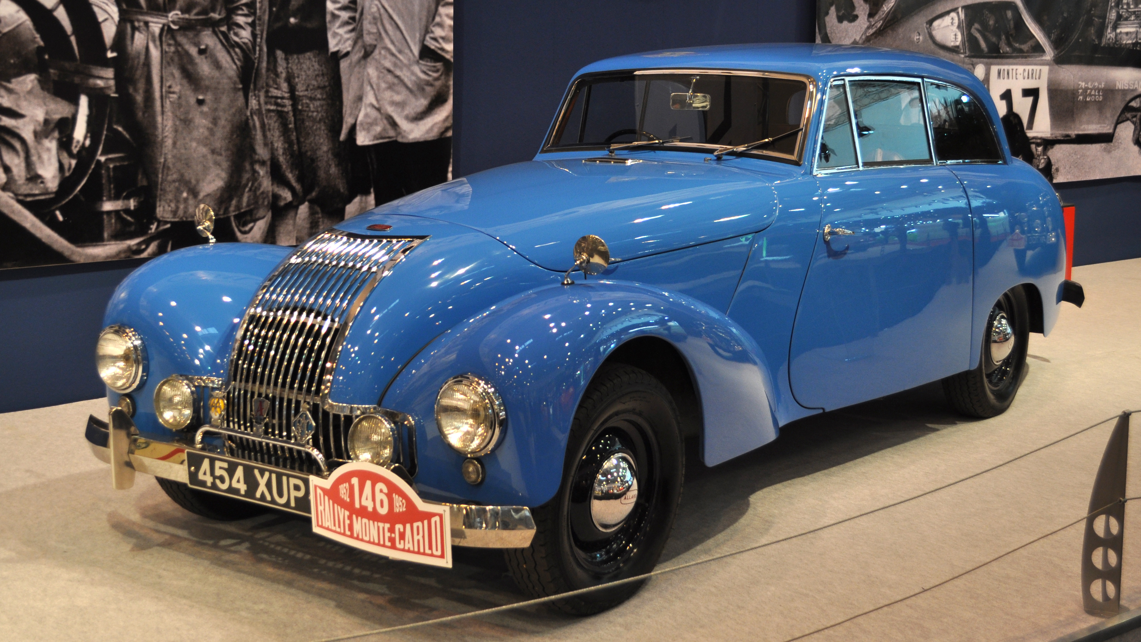 Allard P(1) at the Essen Motor Show 2011